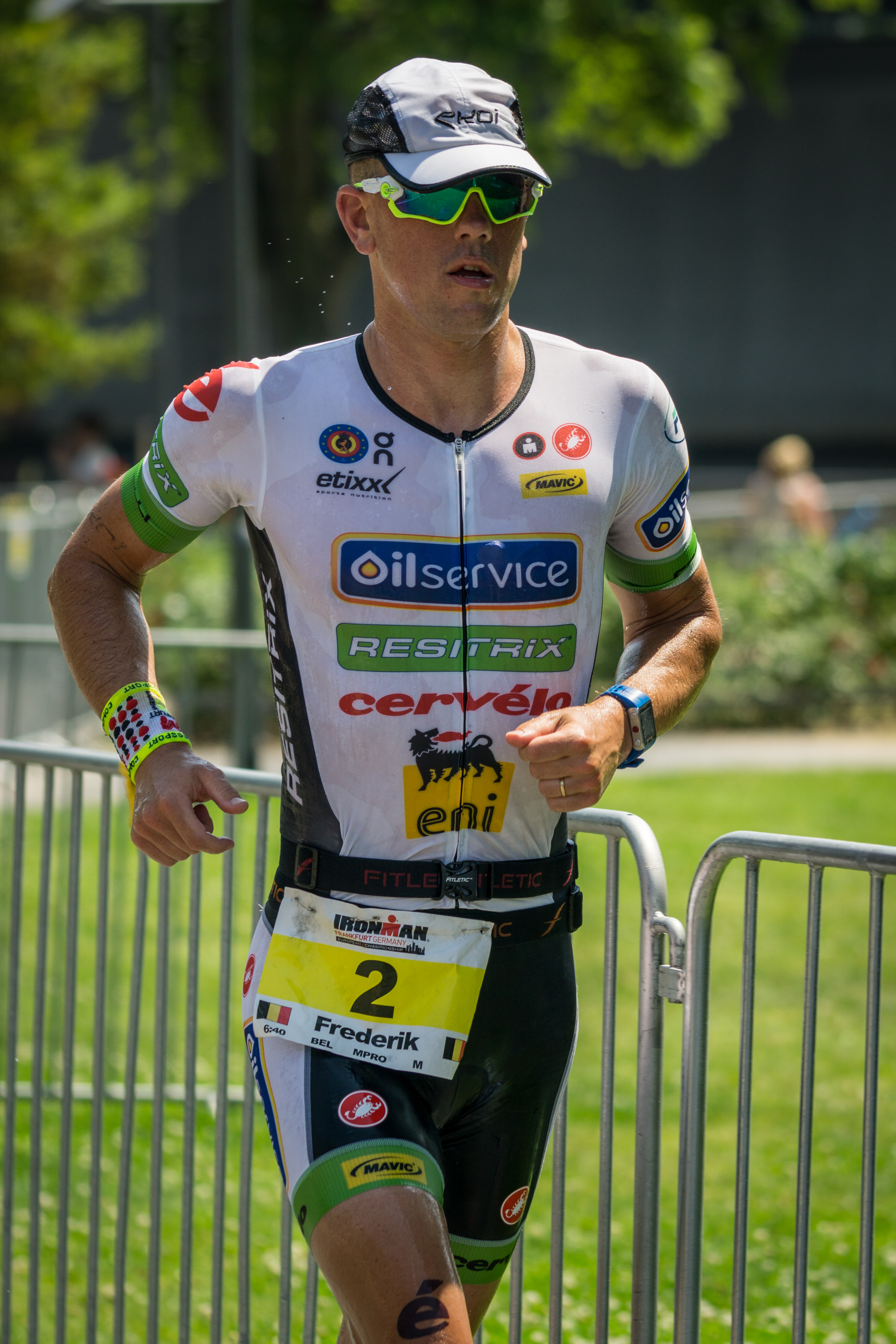 Frederik Van Lierde at the 2015 Ironman European Championship in Frankfurt am Main.